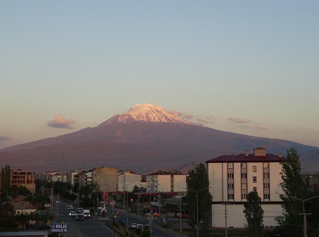 Iğdır city view in the evening.